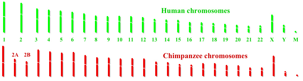 I made this diagram using PhotoShop and ClarisDraw. This image was made starting with diagrams available at United States government genome webpages. "M" = mitochondrial. Source material: see human and chimp.